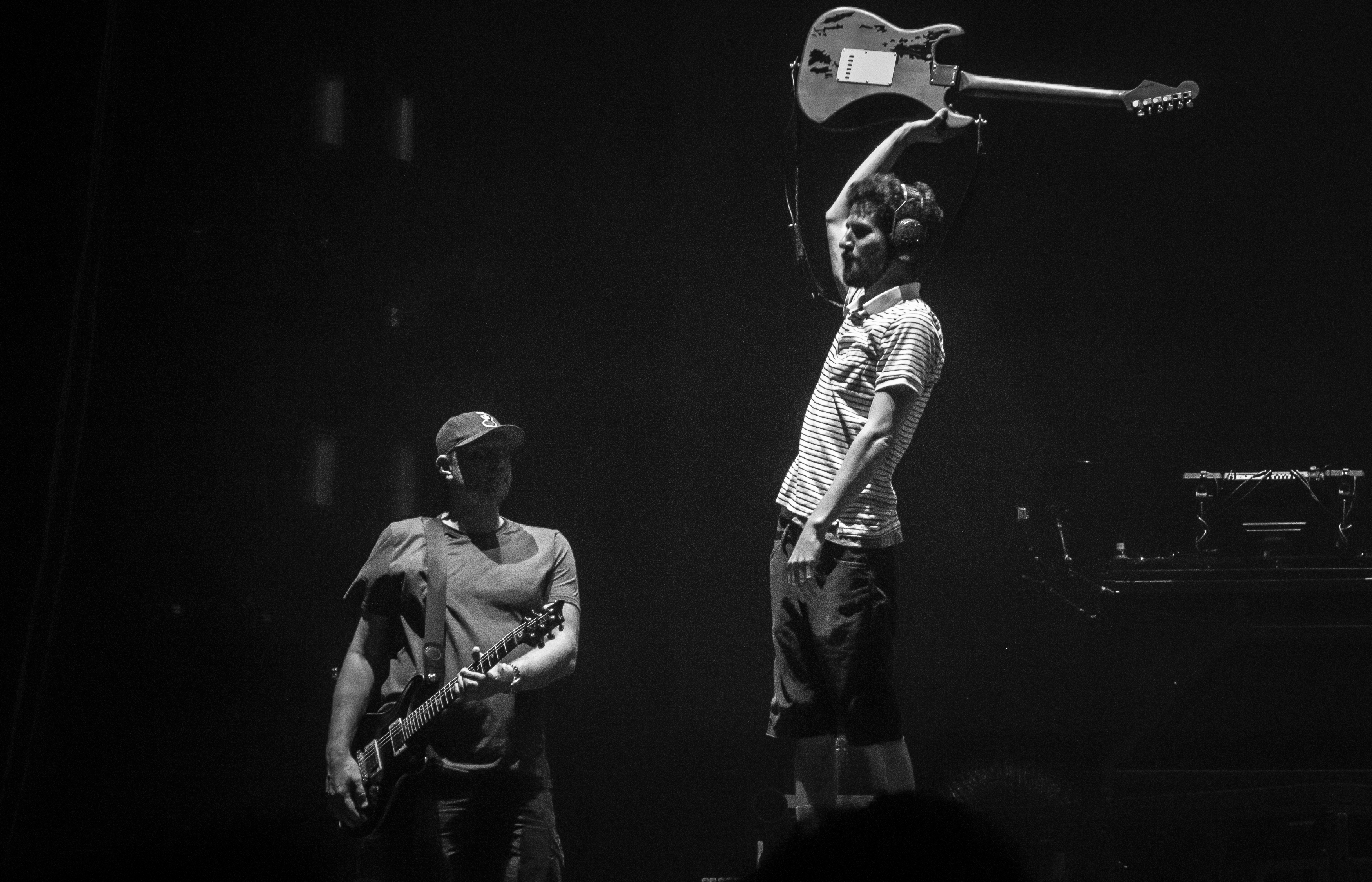 Brad Delson at Soundwave 2013 - Rod Laver Arena, Melbourne.